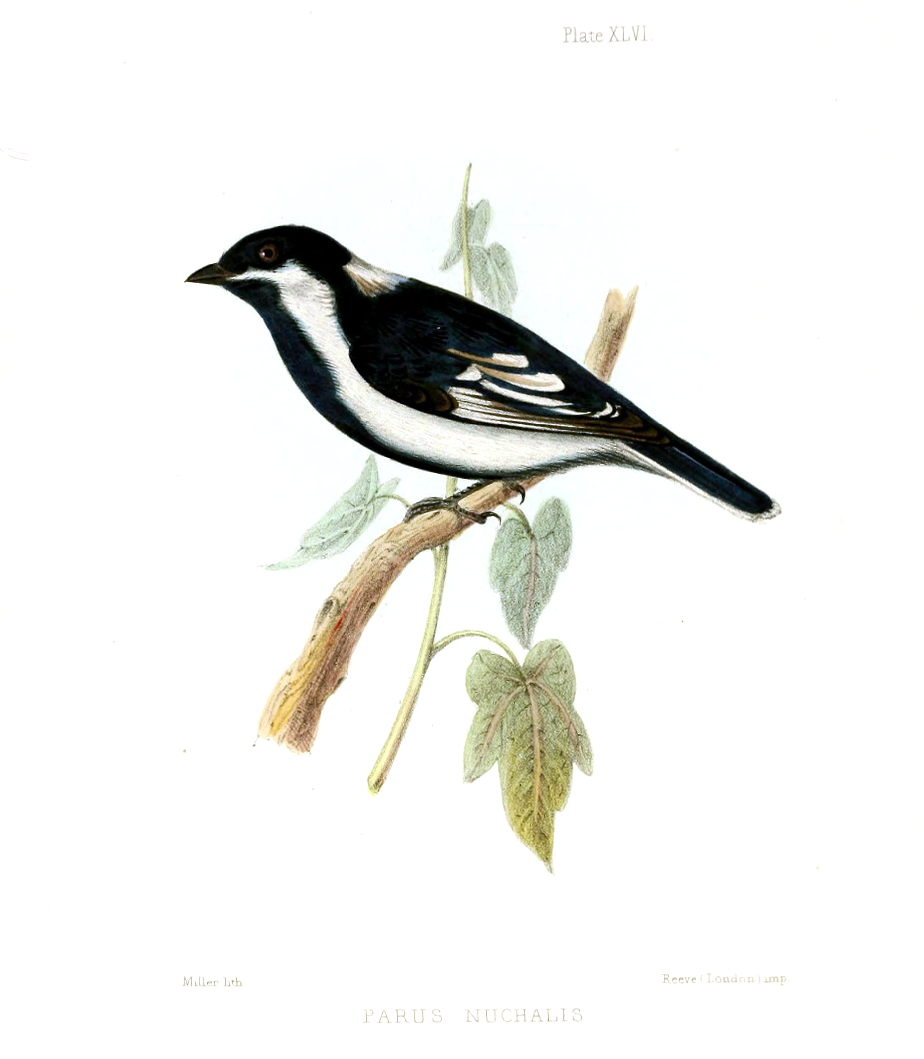 Parus nuchalis illustration from Jerdon's Illustrations of Indian Ornithology